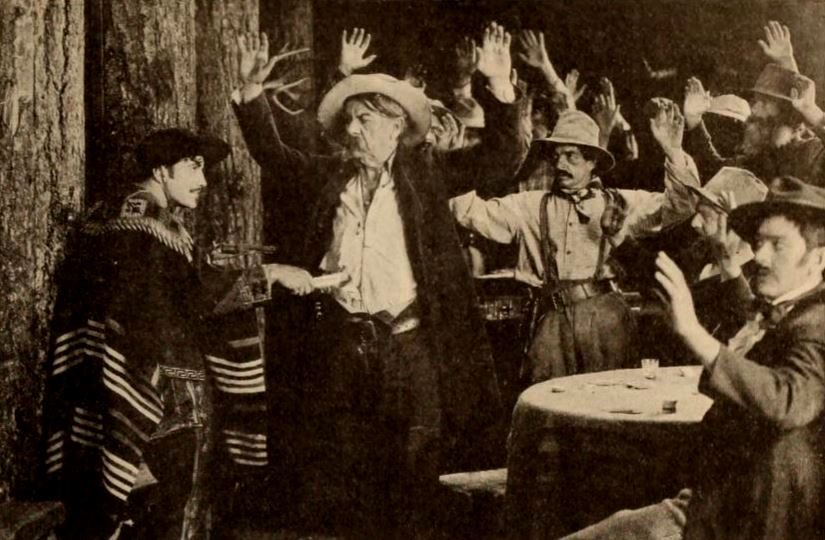 Still from the American western film Scarlet Days (1919) with Richard Barthelmess, on page 71 of the December 20, 1919 Exhibitors Herald.